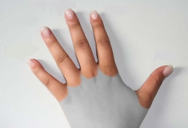 A version of "Dedos de la mano.jpg" with all labels removed for multilingual usage.